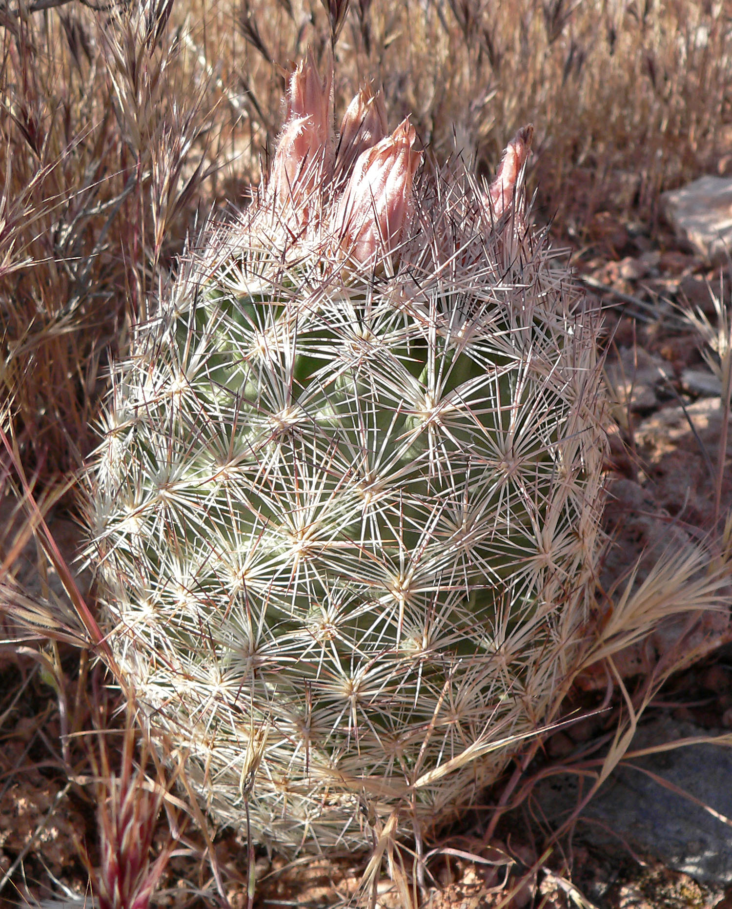 Photo of Escobaria deserti in Calico Basin west of Las Vegas, Nevada